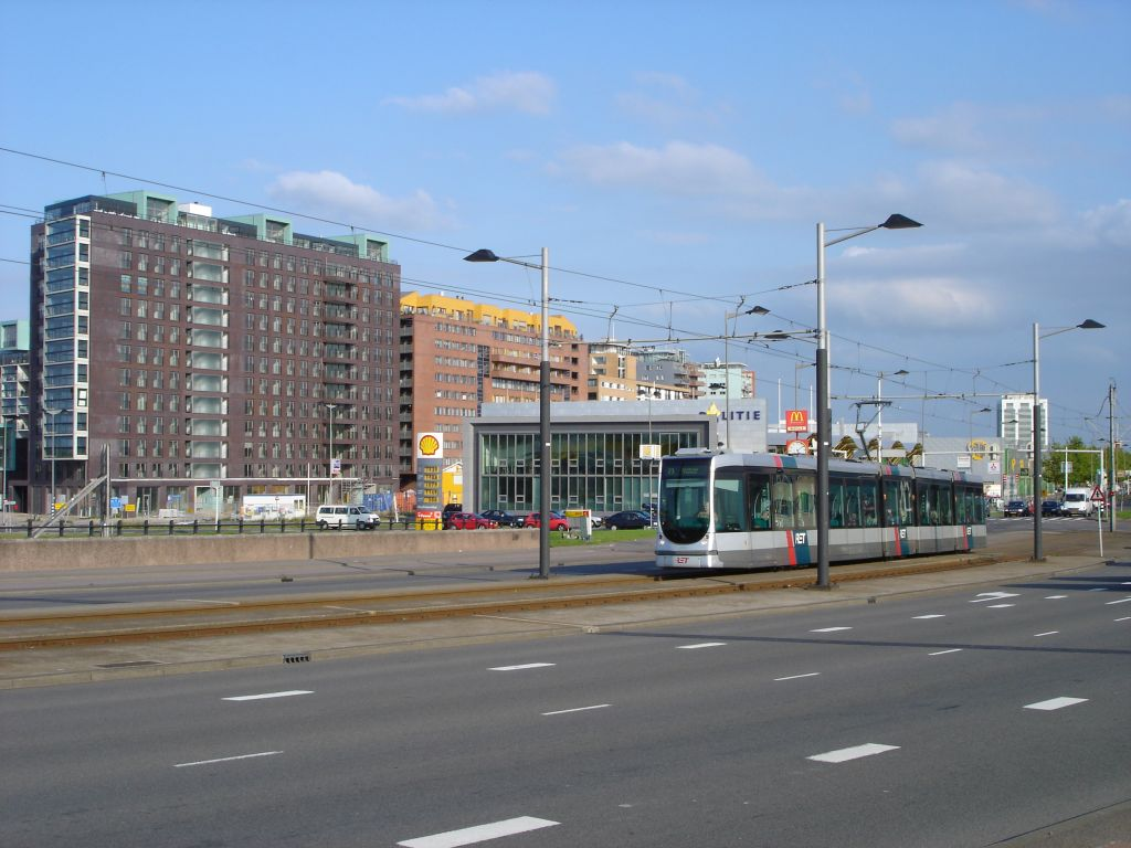 View on De Veranda in the deelgemeente IJsselmonde in Rotterdam with the police bureau and the Pathé bioscoop.